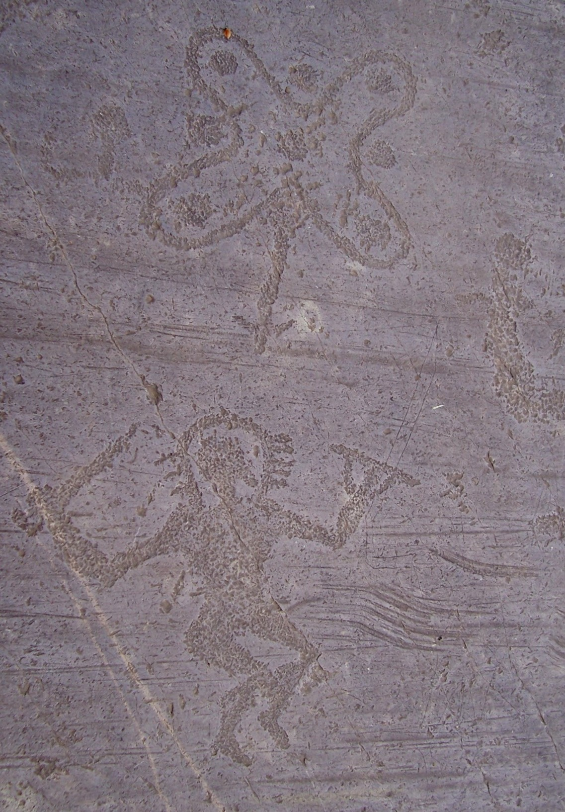 Camunian rose and two human figures: one in "martellina", other in graffito. Foppe Area, R. 24, Rock Art Natural Reserve of Ceto, Cimbergo and Paspardo. Nadro, Rock Drawings in Valle Camonica.